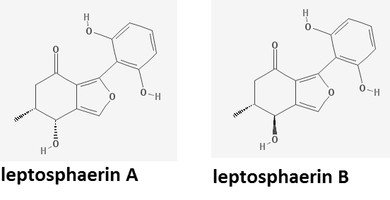 Leptosphaerin A&B